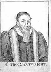 Thomas Cartwright (1535-1603), Father of English Presbyterianism